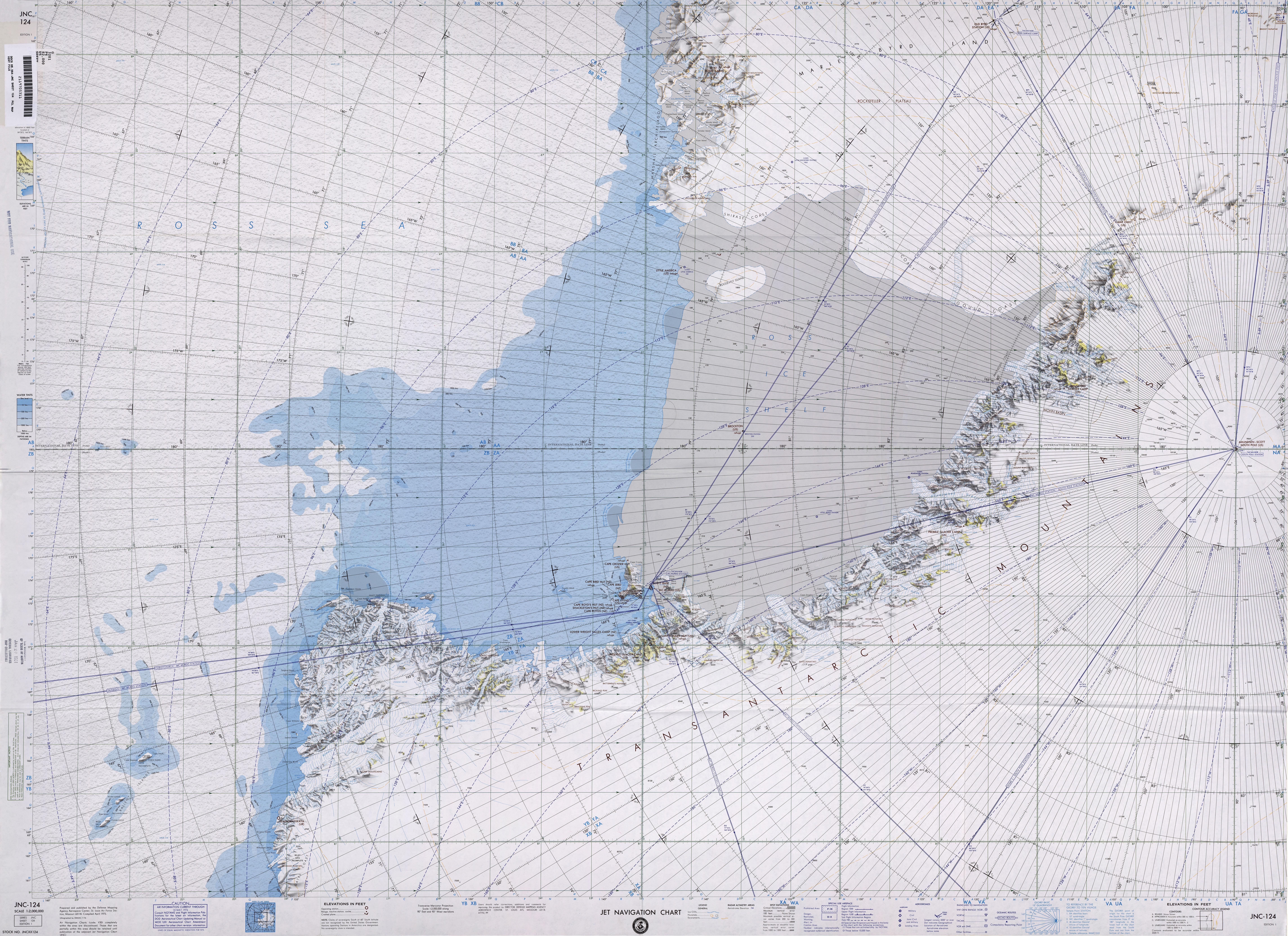 Jet Navigation Map of scale 1:2,000,000 of portion of Antarctica with Ross Sea and Victoria Land